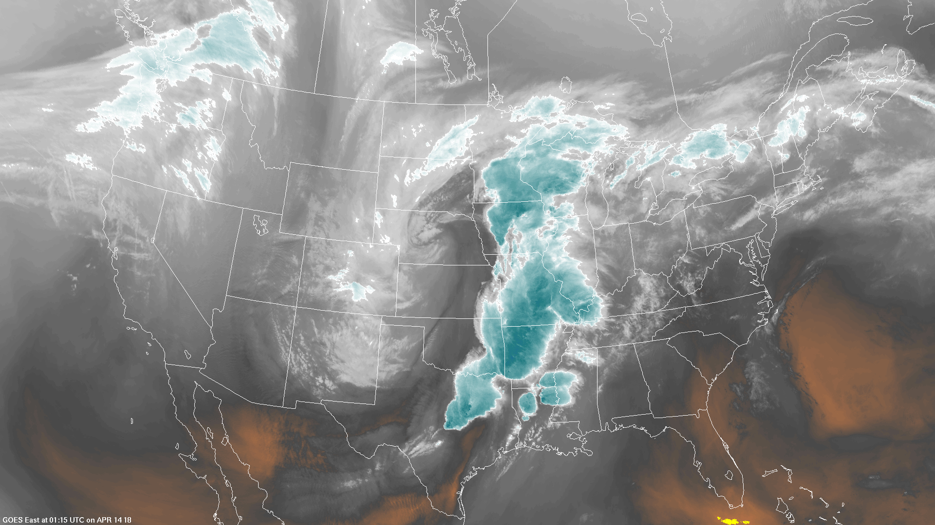 Water vapor imagery of an expansive storm complex over the Central United States.